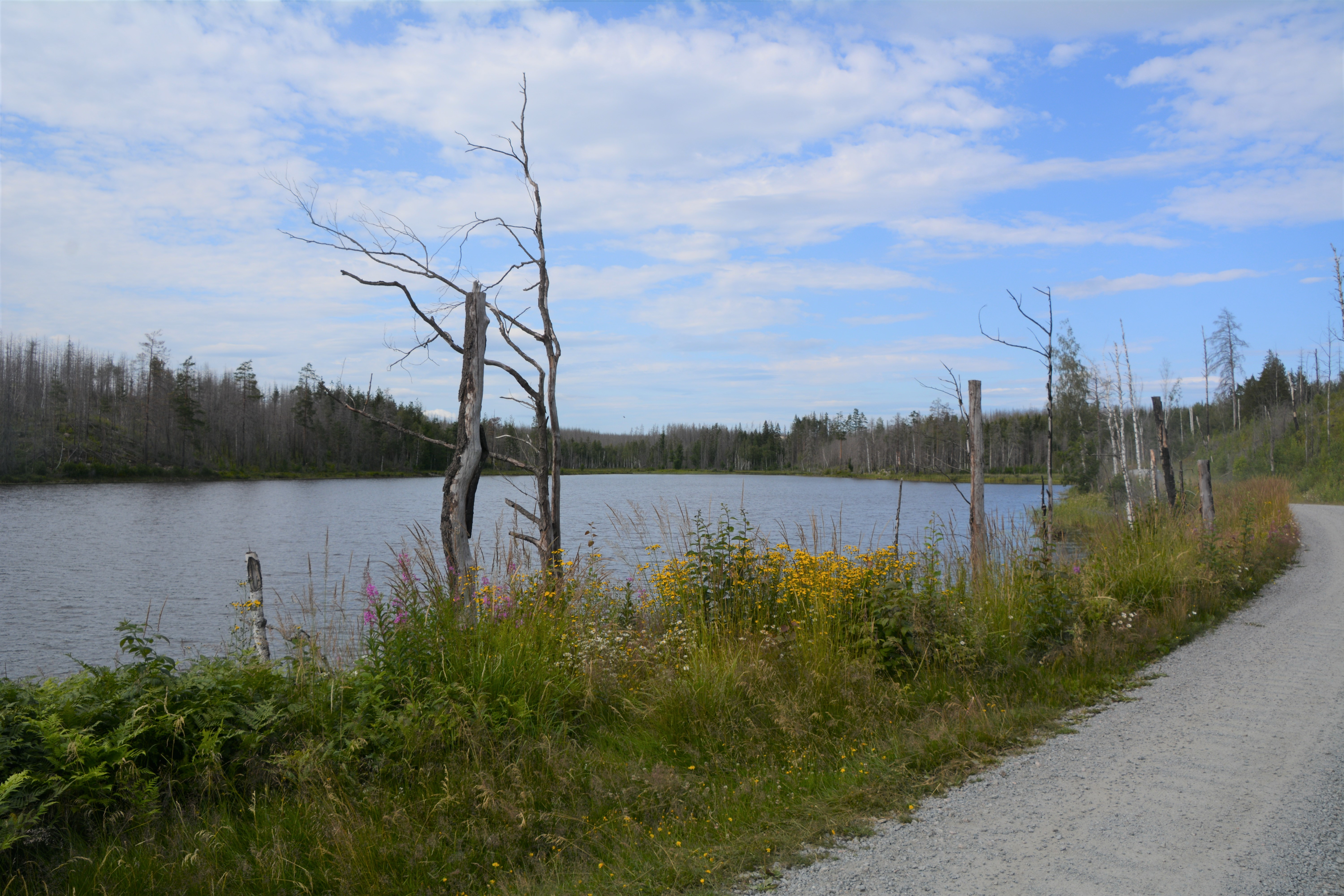 Lilla Vallsjön in Hälleskogsbrännans nature reserve